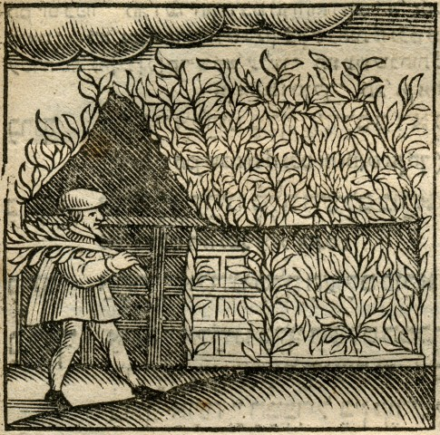 Wood Carvings of Sukkot Customs